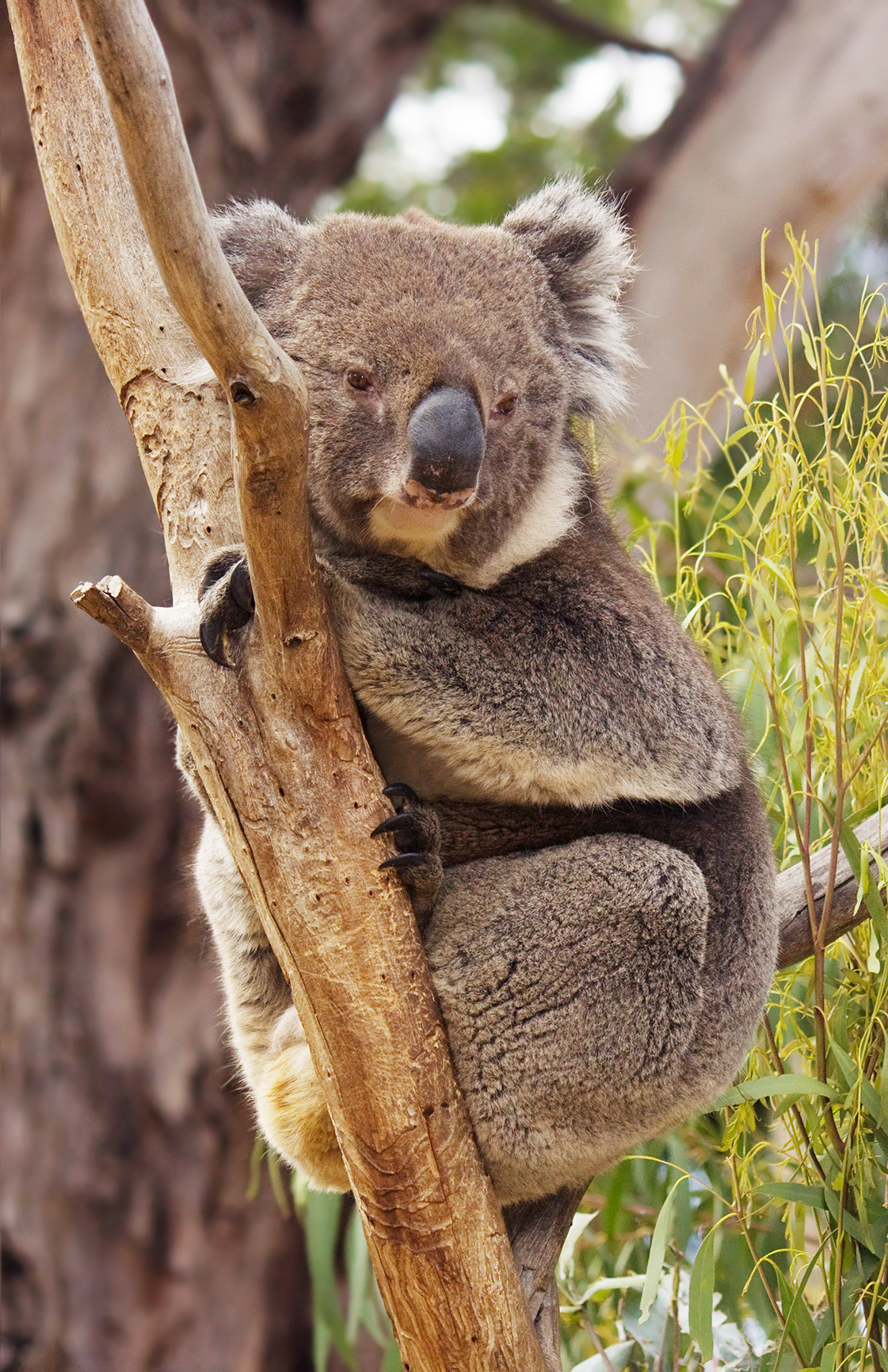 Koala (Phascolarctos cinereus), Bonorong Wildlife Park, Tasmania, Australia